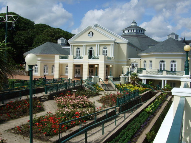 Villa Marina and Gardens Douglas Reflects only part of the gardens.